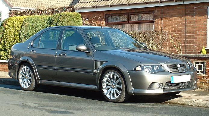 Image of a 2004 MG ZS180 in XPower Grey